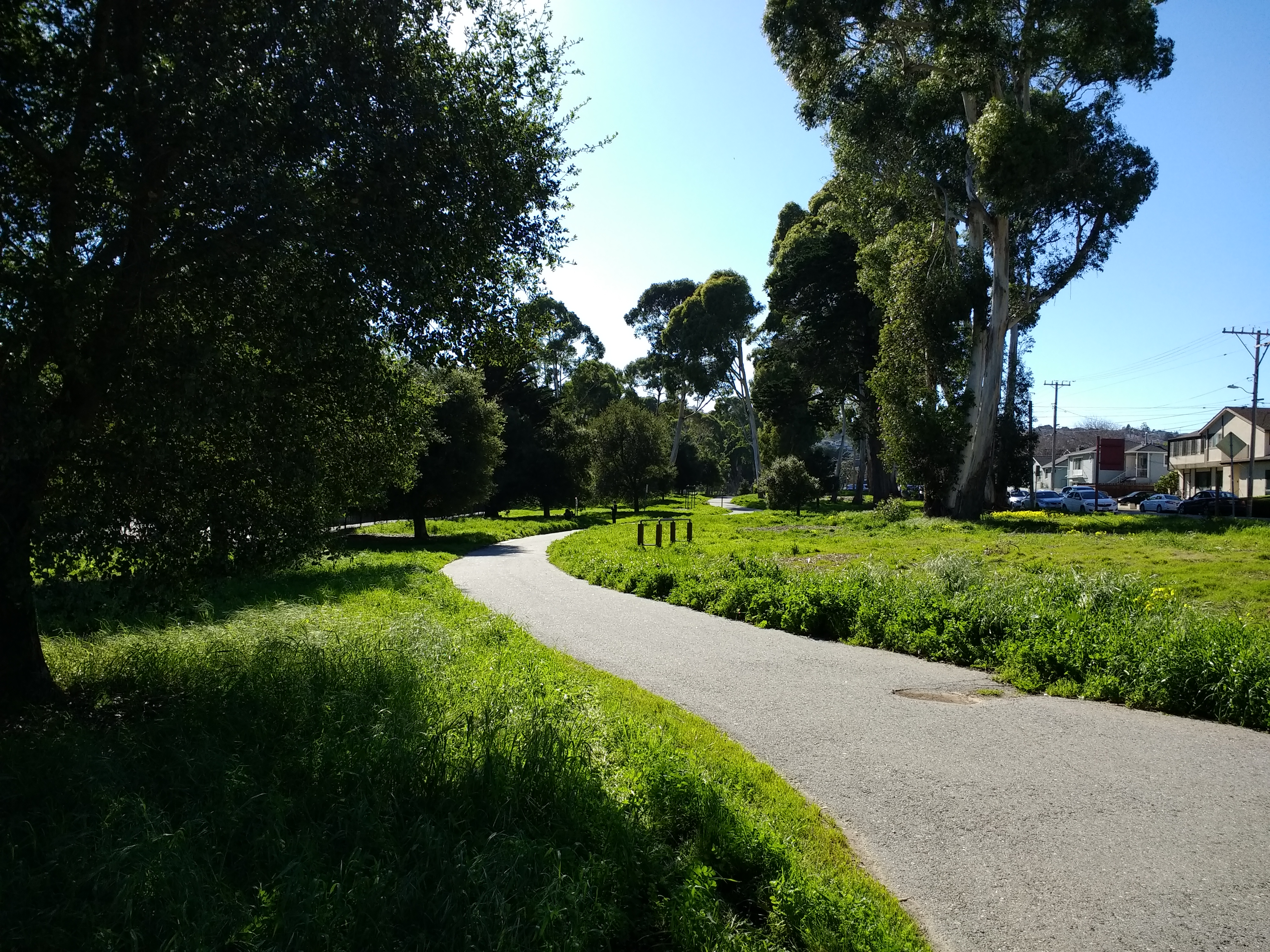 Spur Trail, Millbrae, California. This is part of the southern section of the trail, photographed near the corner of Millbrae and Magnolia Drive.